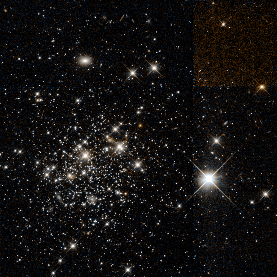 Color rendering is done by by Aladin-software (2000A&AS..143...33B.)